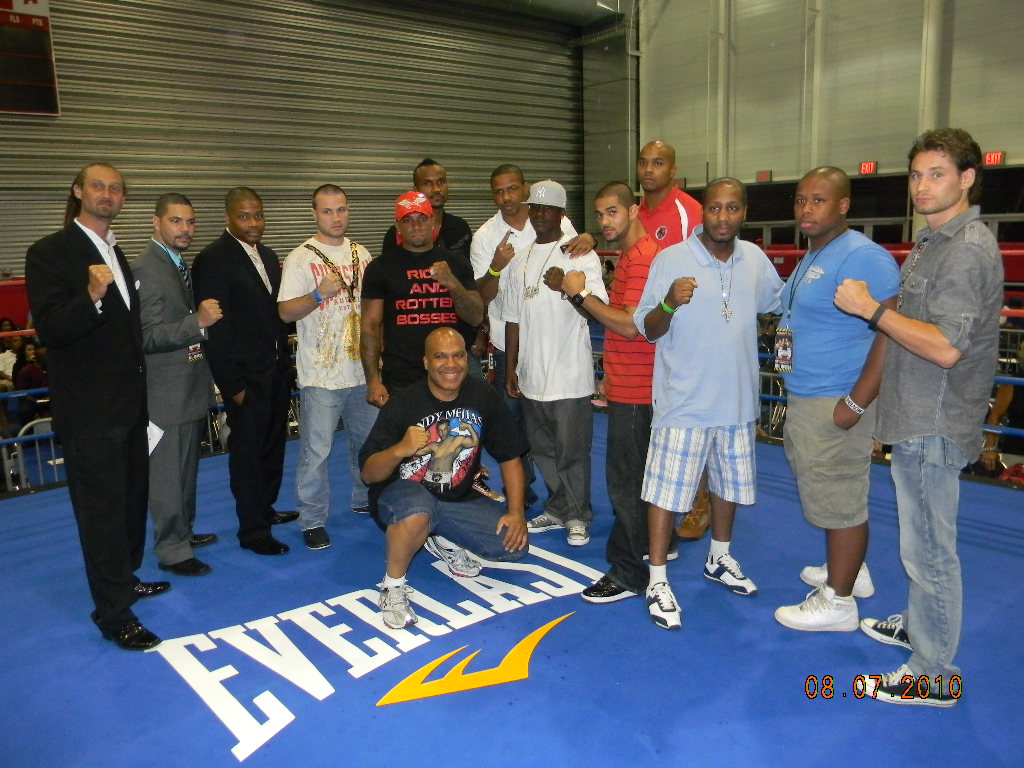 Ring announcer David Diamante (far left) with boxers at Aviator Arena Sports Facility. Junior Jones is in the front row. Monte Barrett and Maurice Harris are in the back row